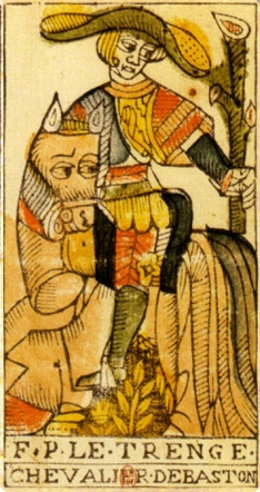 An original card from the tarot deck of Jean Dodal of Lyon, a classic Tarot of Marseilles deck which dates from 1701-1715.